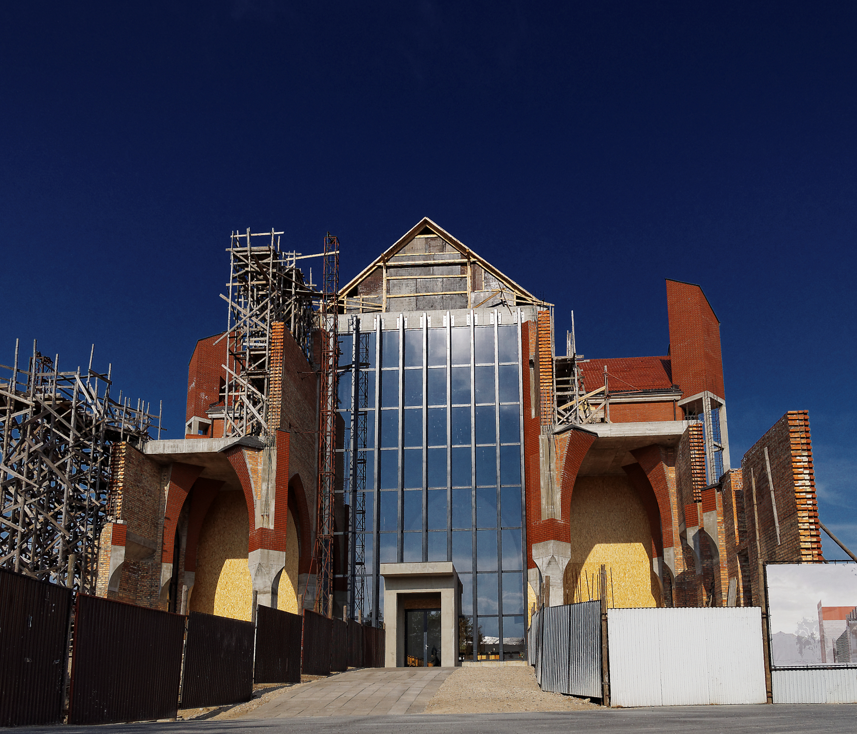 Ełk - a catholic church under construction on Kiliński St. - May 2016